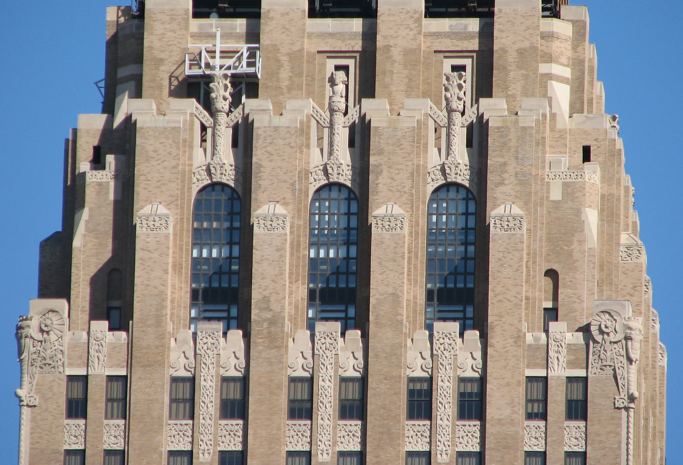 The Verizon Building